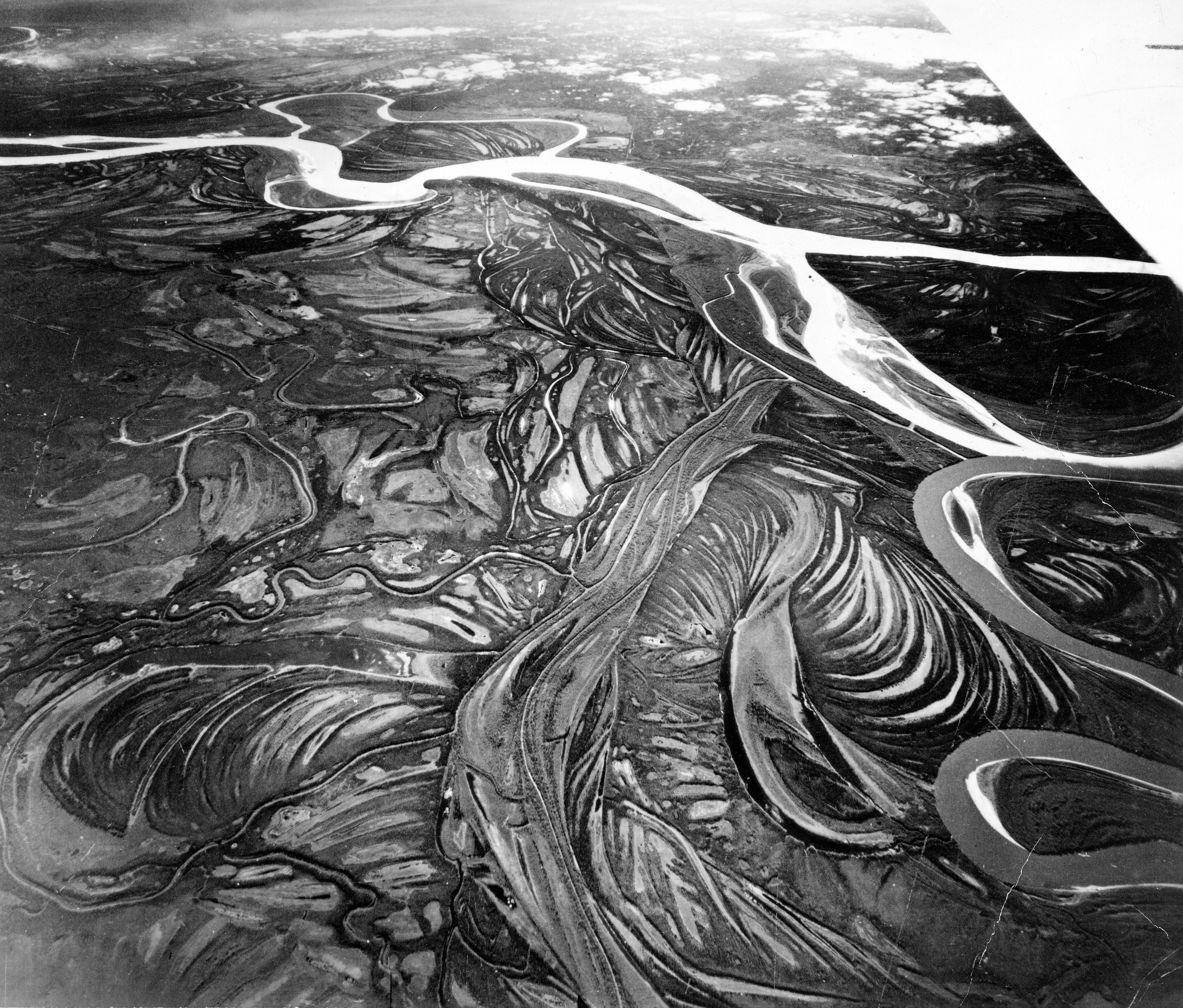 Alaska. High-altitude oblique aerial photograph looking south toward the junction of the Yukon and Koyukuk Rivers. The Koyukuk River (dark color) joins the silt-laden Yukon River (light color) at the right. (Aircraft wing visible at upper right corner of image.)